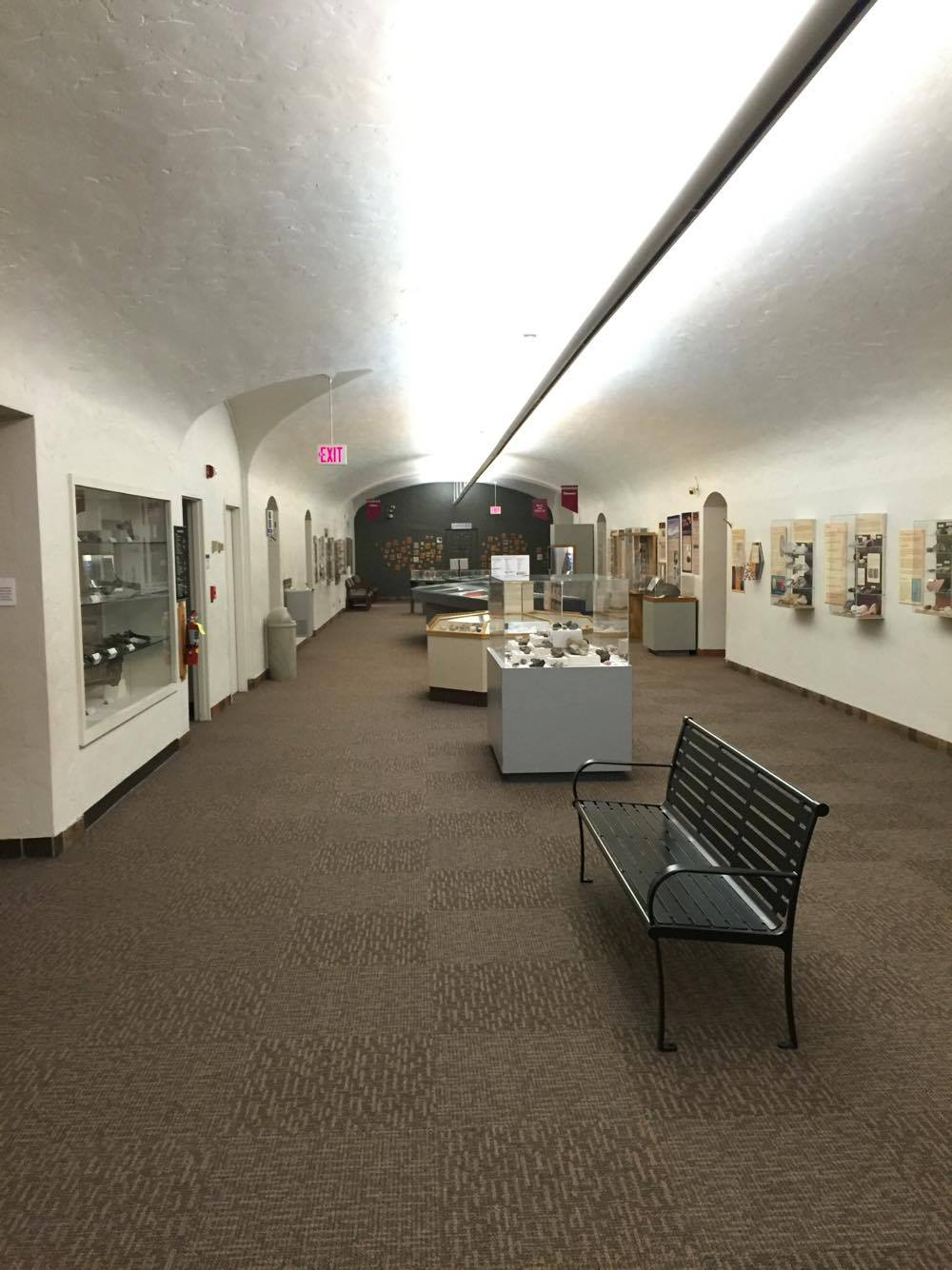 Hallway